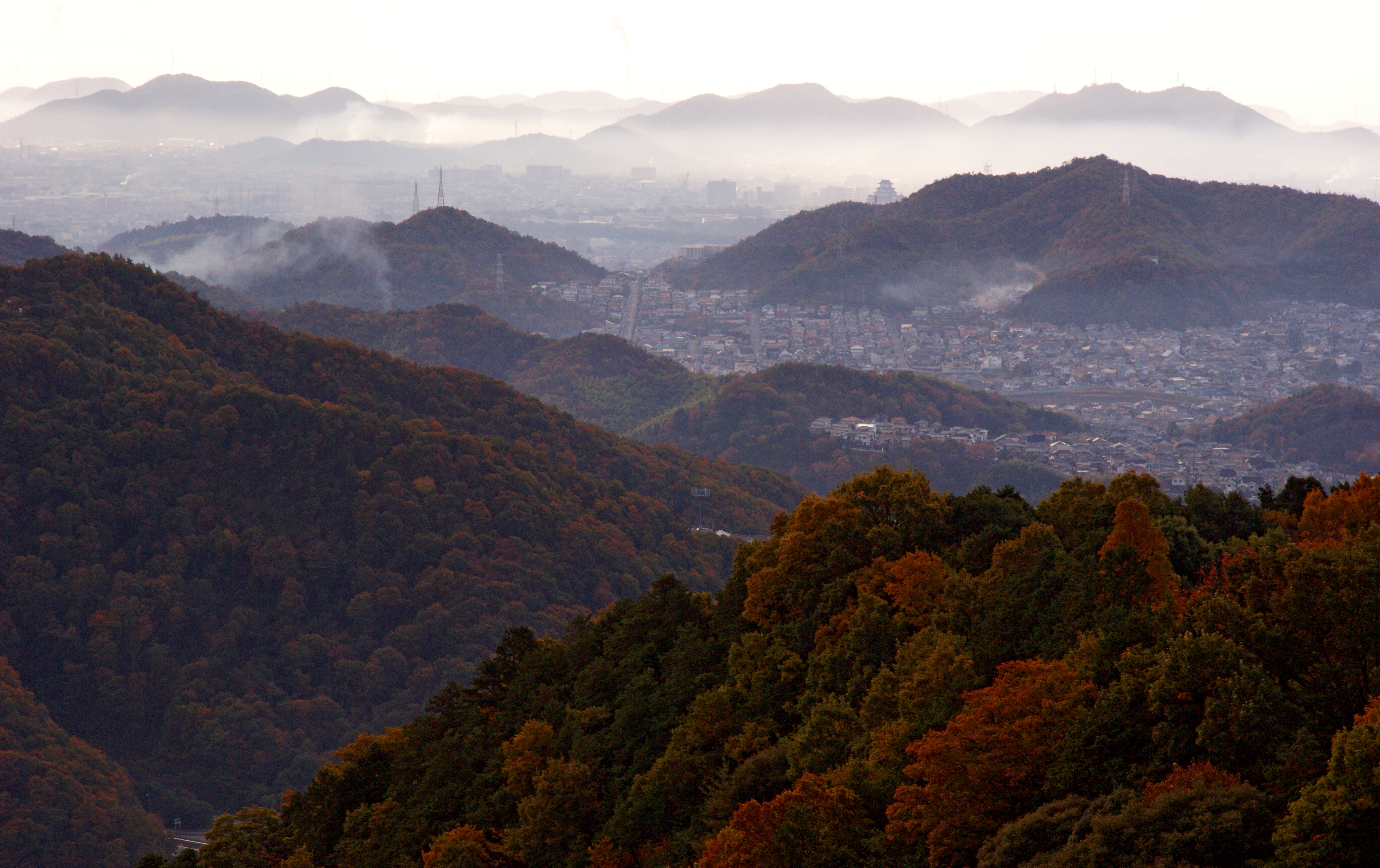 Himeji City town. View from Engyoji (Mt.Shosha) in Himeji, Hyogo prefecture, Japan